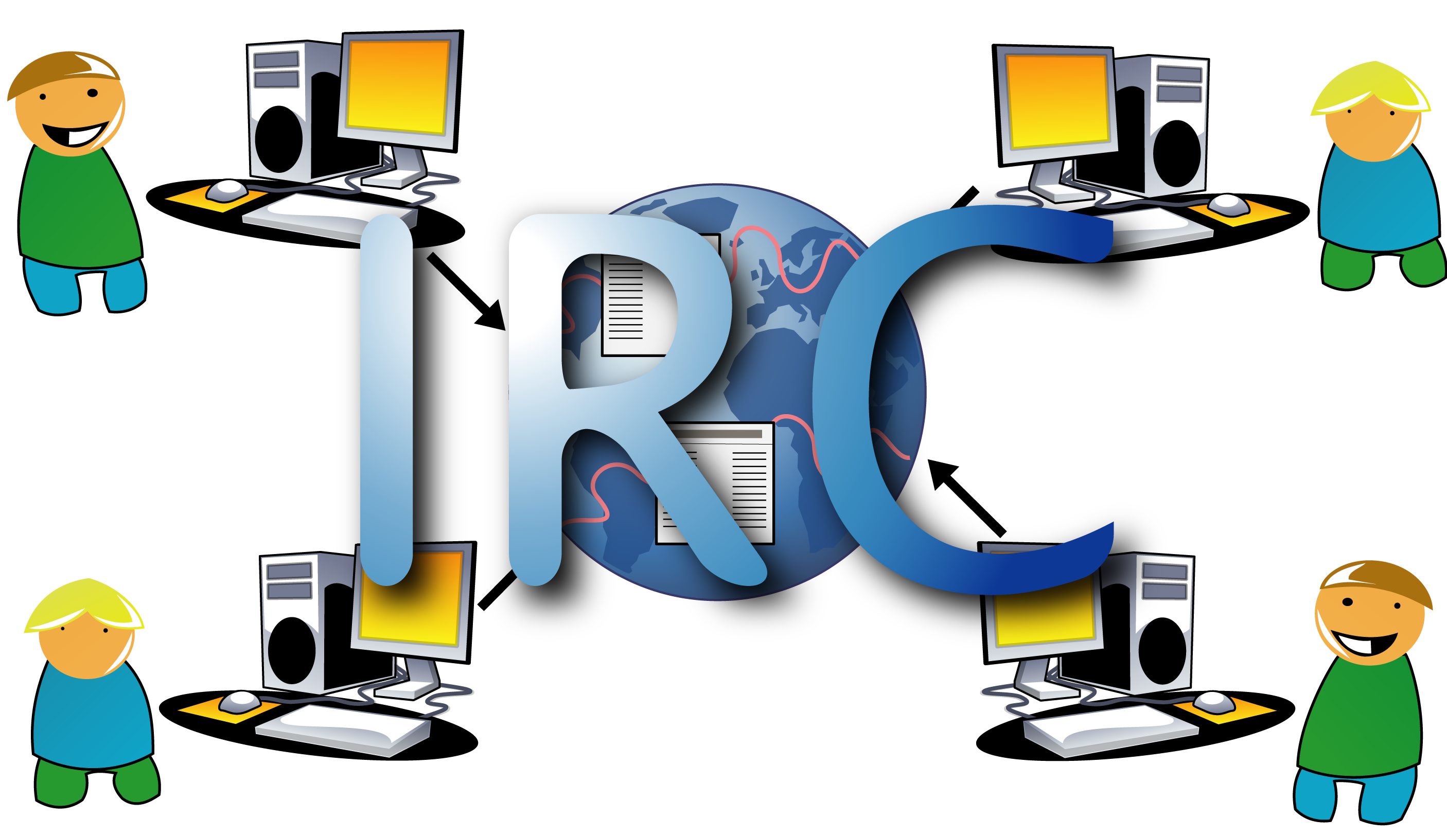 Picture to be used for cover for IRC Wikibooks